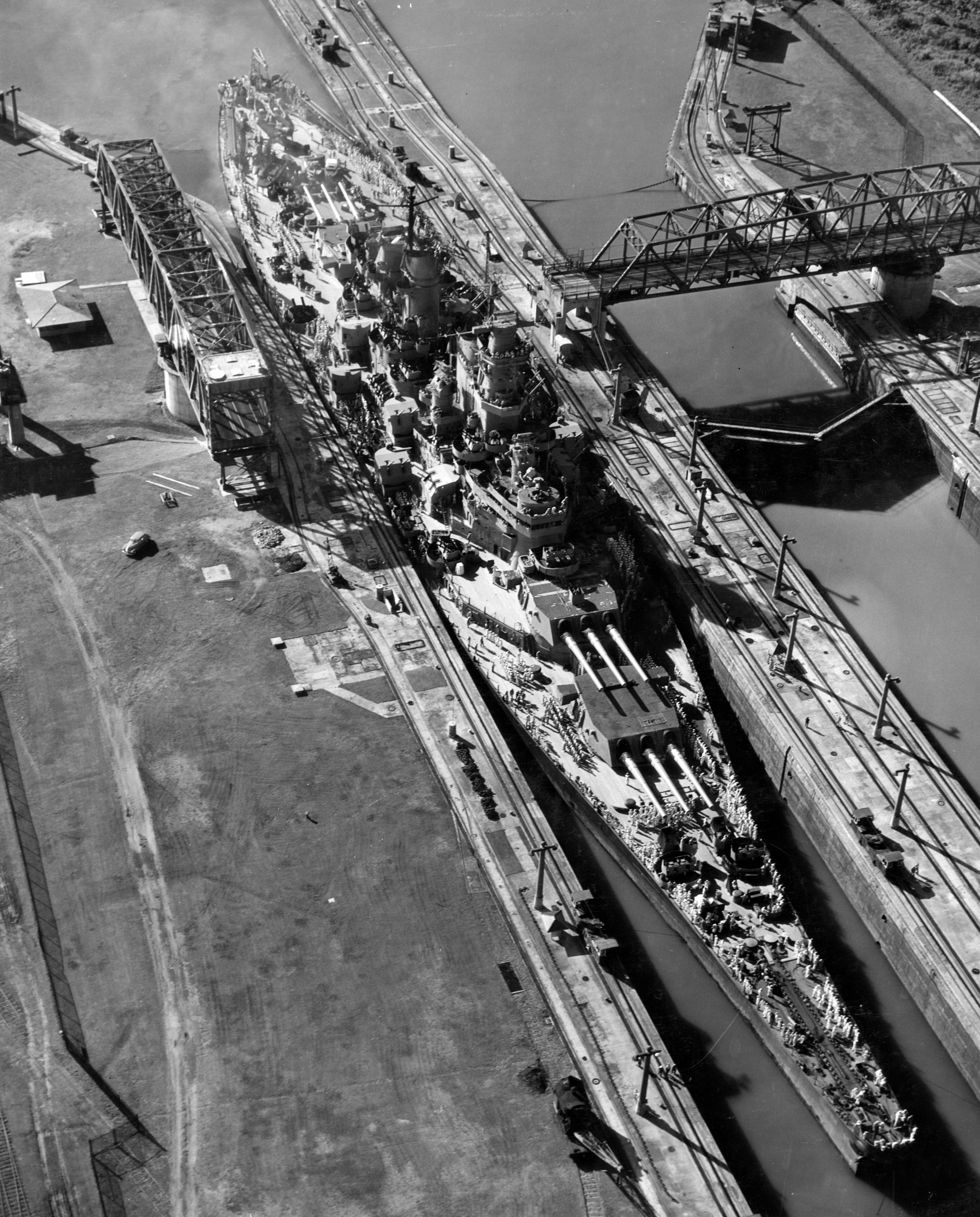 USS Missouri (BB-63) in the Miraflores Locks, Panama Canal, 13 October 1945, while en route from the Pacific to New York City to take part in Navy Day celebrations. Note the close fit of the ship in the locks. The beam of battleships of this era was determined by Panama Canal lock dimensions. Specifically, the locks are 110 feet wide, and the beam of the vessels are 108 feet and some inches, leaving about 8 inches of clearance, per side.